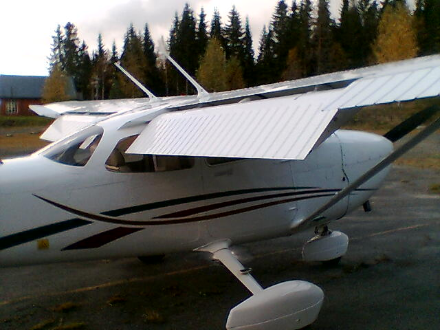 Flaps of Cessna 172 form behind.